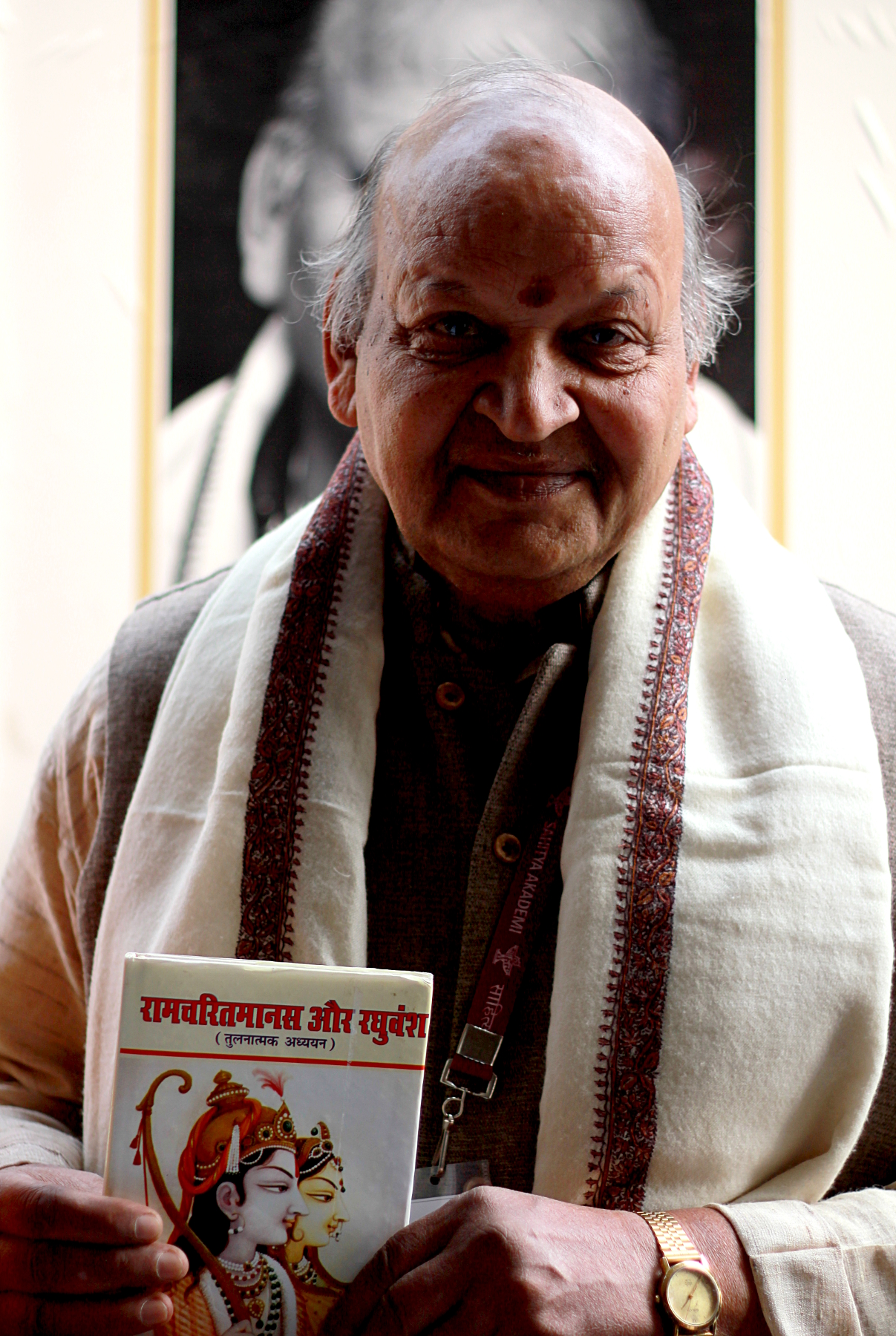 Ramakant Shukla Sahitya Akademi award winner